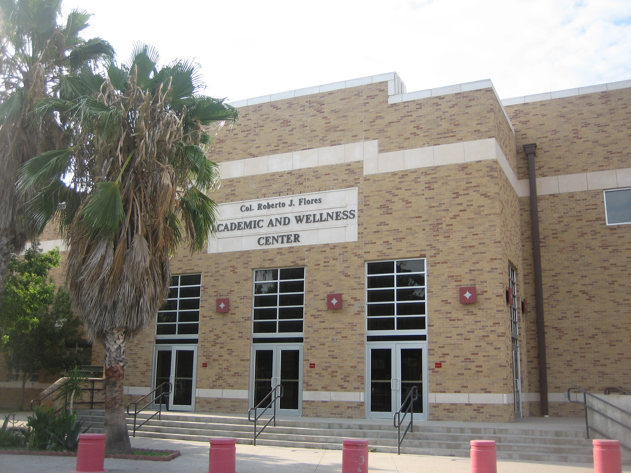 I took photo at Martin High School in Laredo, TX, on June 24, 2009.